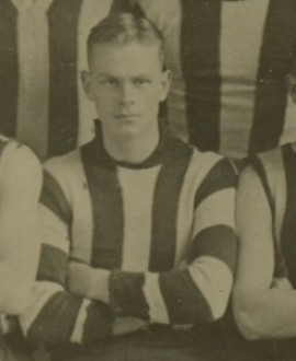 Photo of Les Ames in 1931